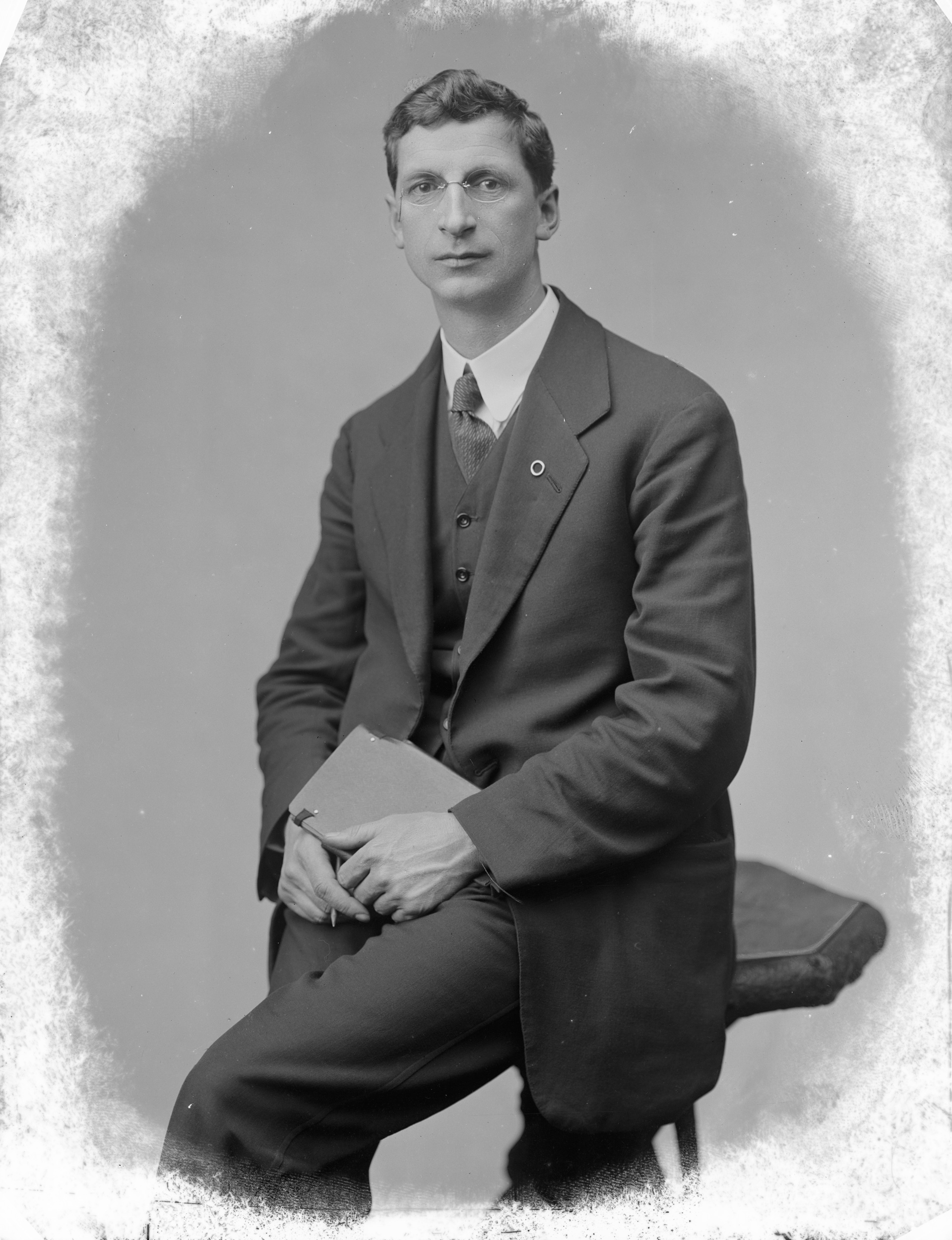 Eamon de Valera, M.P. for East Clare at the time this portrait was taken at A.H. Poole Photographic Studio in Waterford. Wonder if he was in Waterford to raise support, as there must have been a political vacuum since John Redmond of the Irish Parliamentary Party had died on 6 March 1918... Initially thought that de Valera was wearing a lorgnette, but most commenters below have plumped for Pince-nez... Date: Wednesday, 20 March 1918 NLI Ref.: P_WP_2753